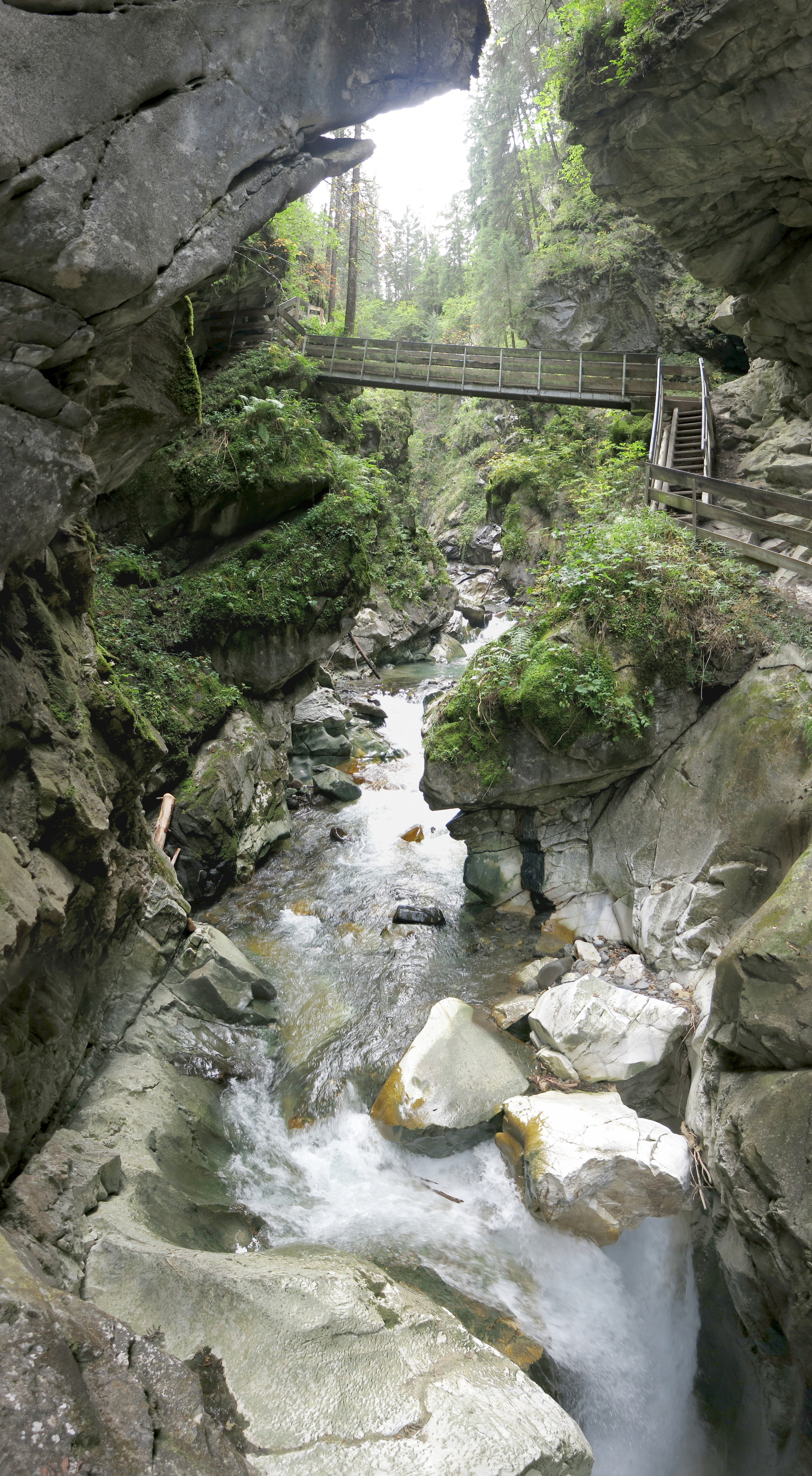 Cascades of the Gilfenklamm in South Tyrol.